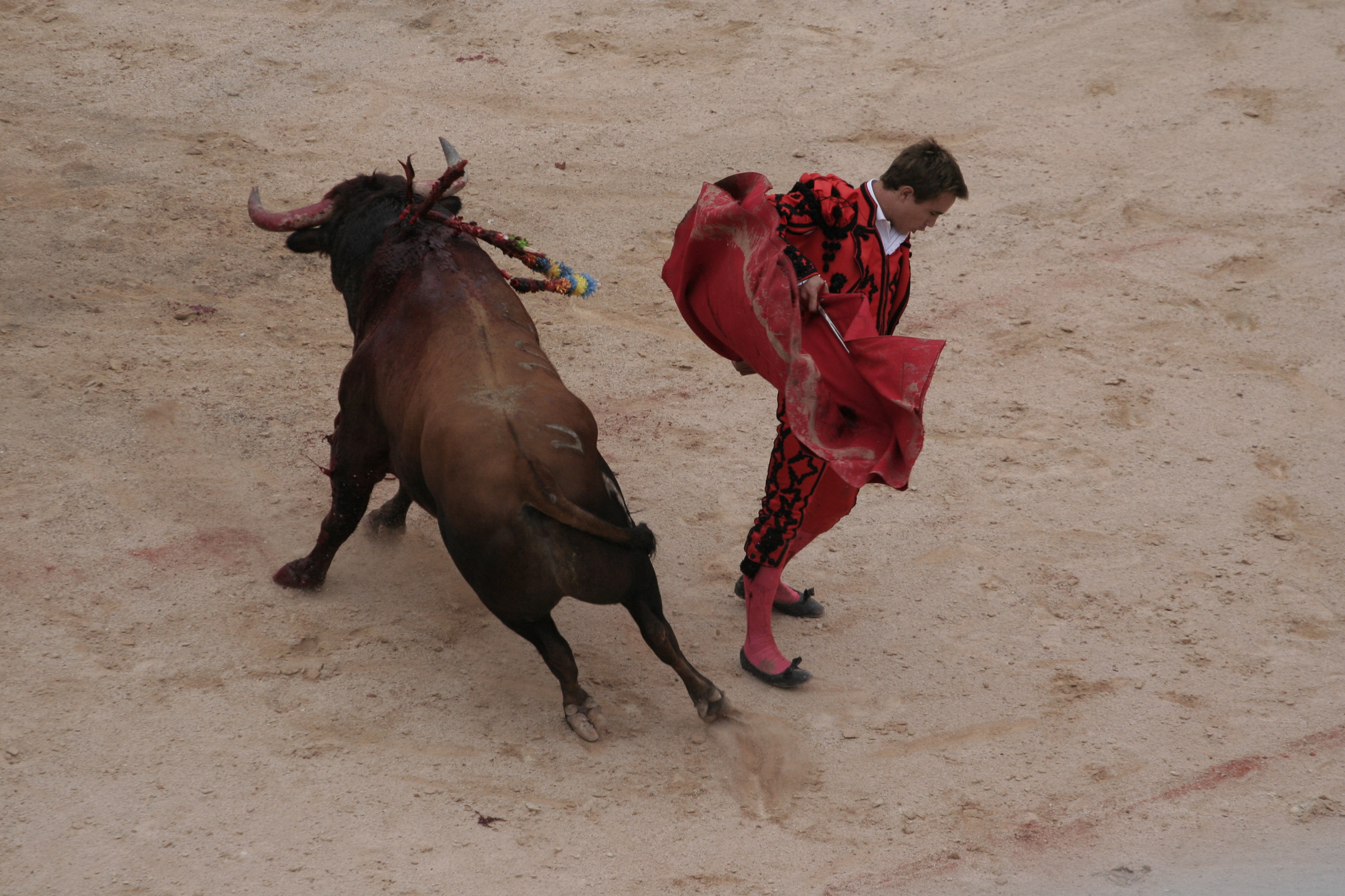 Juan Bautista -Arles- 13/09/2008